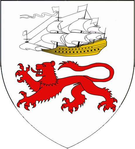 Coat of arms of the O'Leary.